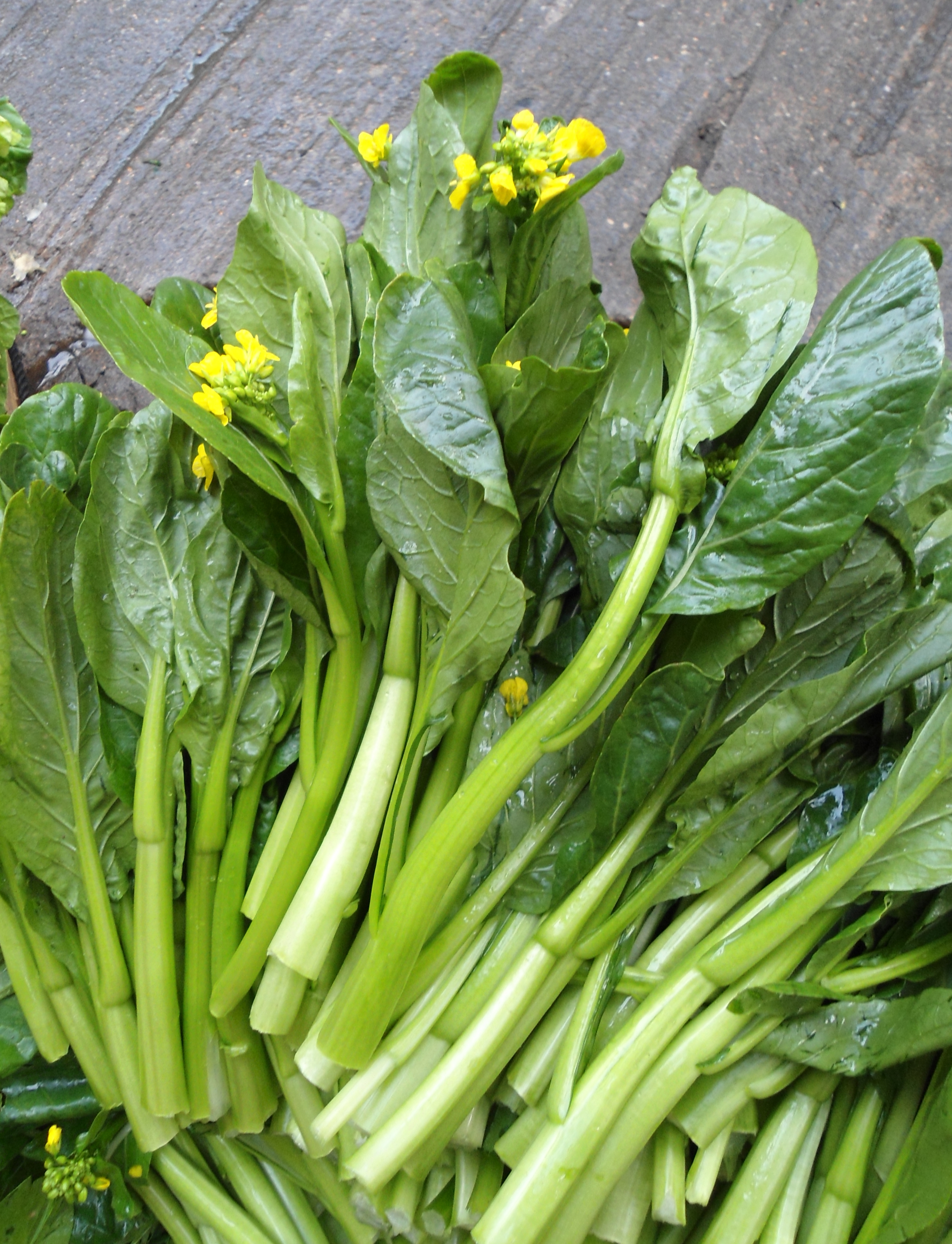 Green Choi Sum, one of the many varities of Chinese vegetable in a market in Haikou City, Hainan Province, China.